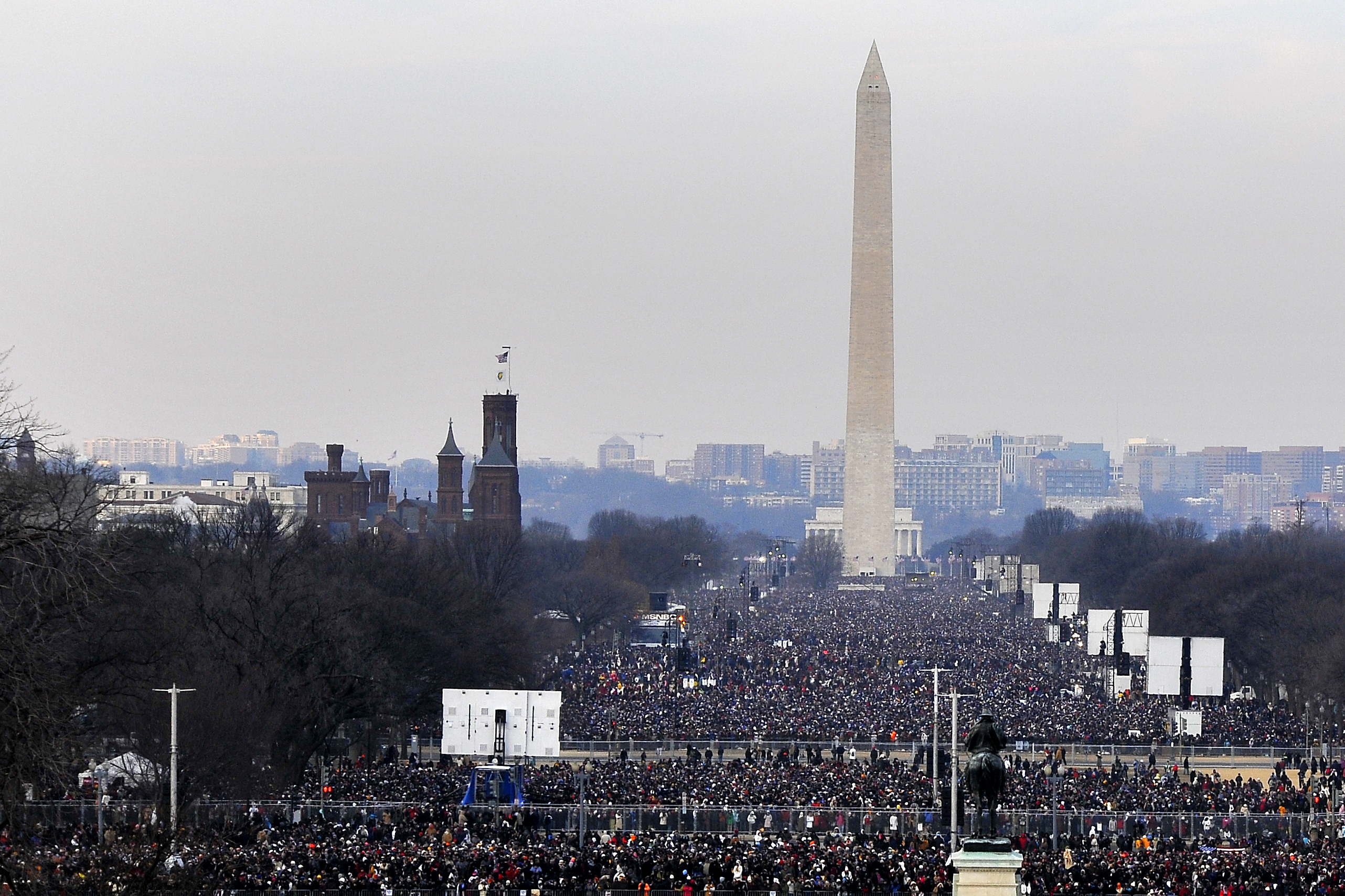 Hundreds of thousands gather on the National Mall prior to the start of the 56th Presidential Inauguration in Washington, D.C. on January 20, 2009. More than 5,000 men and women in uniform provided military ceremonial support for the presidential inauguration, which was expected to be one of the best attended in history.